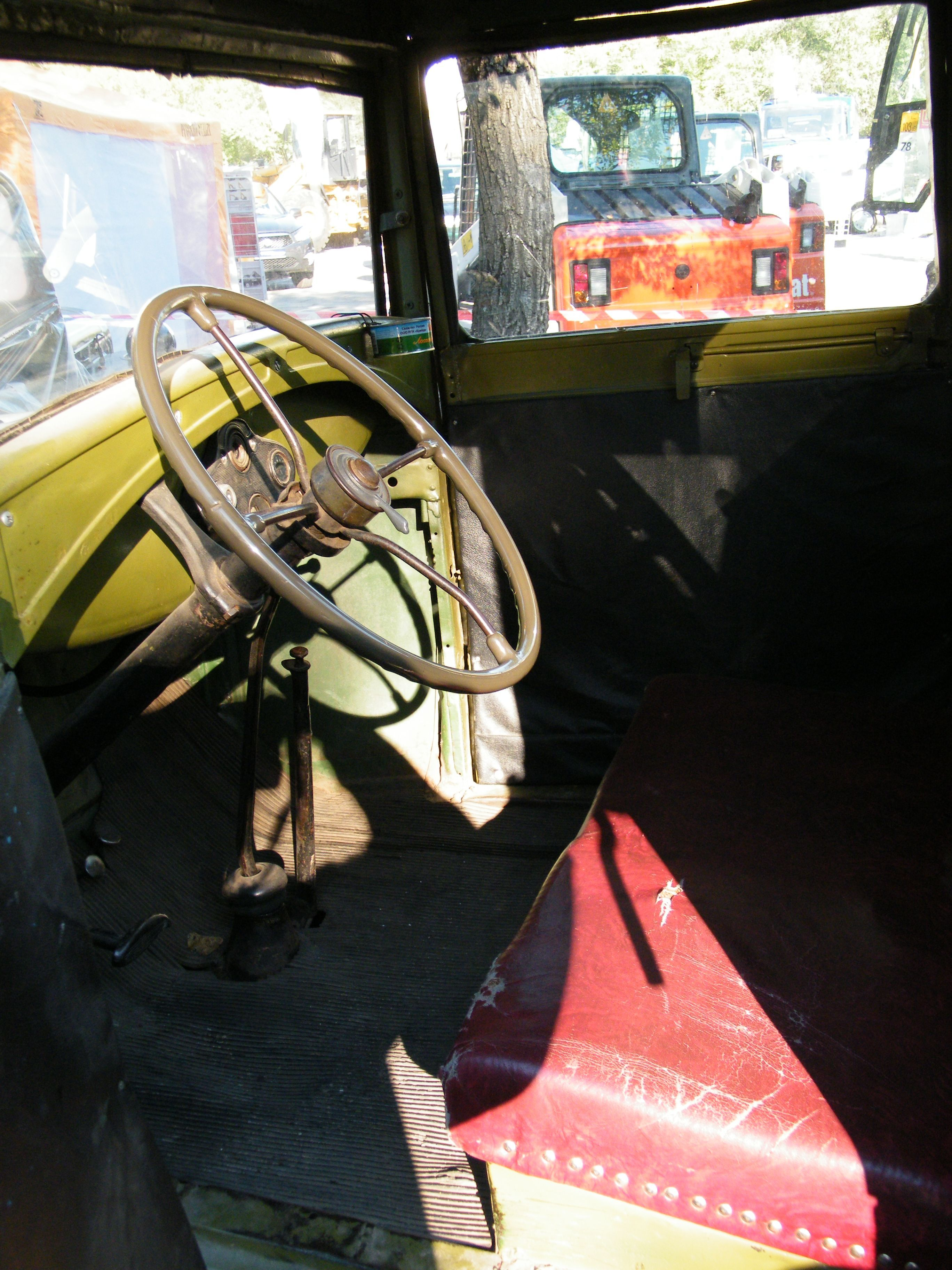 GAZ-MM